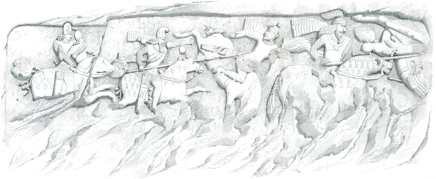 Drawing of French orientalist painter and traveller Eugene Flandin (1840): Sasanian king Ardachir Babakan's rock relief (Firuzabad 1), Scene showing an equestrian victory over Parthian king Artabanus V, province of Fars, Iran.